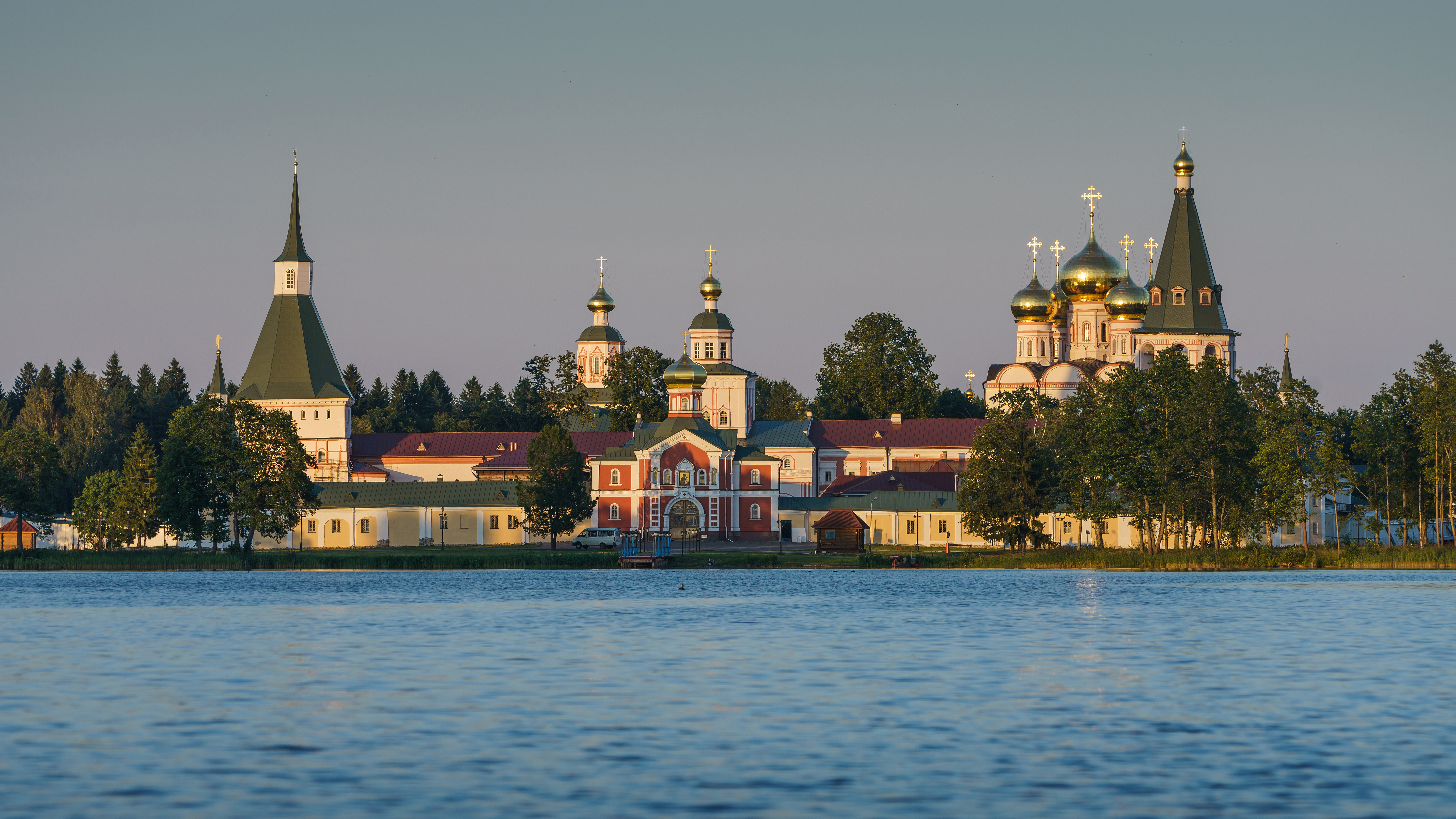 Iversky Monastery in Valdai, Novgorod Oblast, Russia.